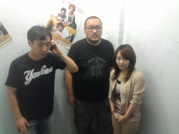 Munhwa Broadcasting Corporation voice acting division's 3 voice actors(An Jang-hyeok,Choi Seok-pil,Jo Hyeon-jeong).